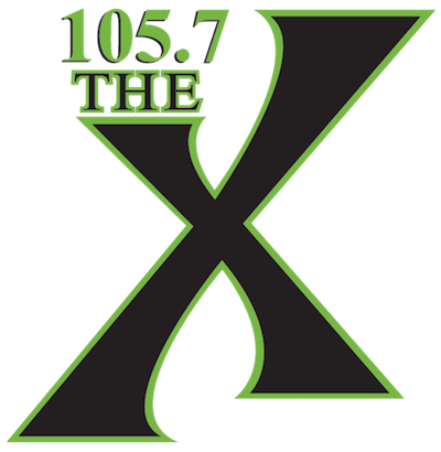 Logo for 105.7 The X, a radio station in Columbus, Ohio, United States